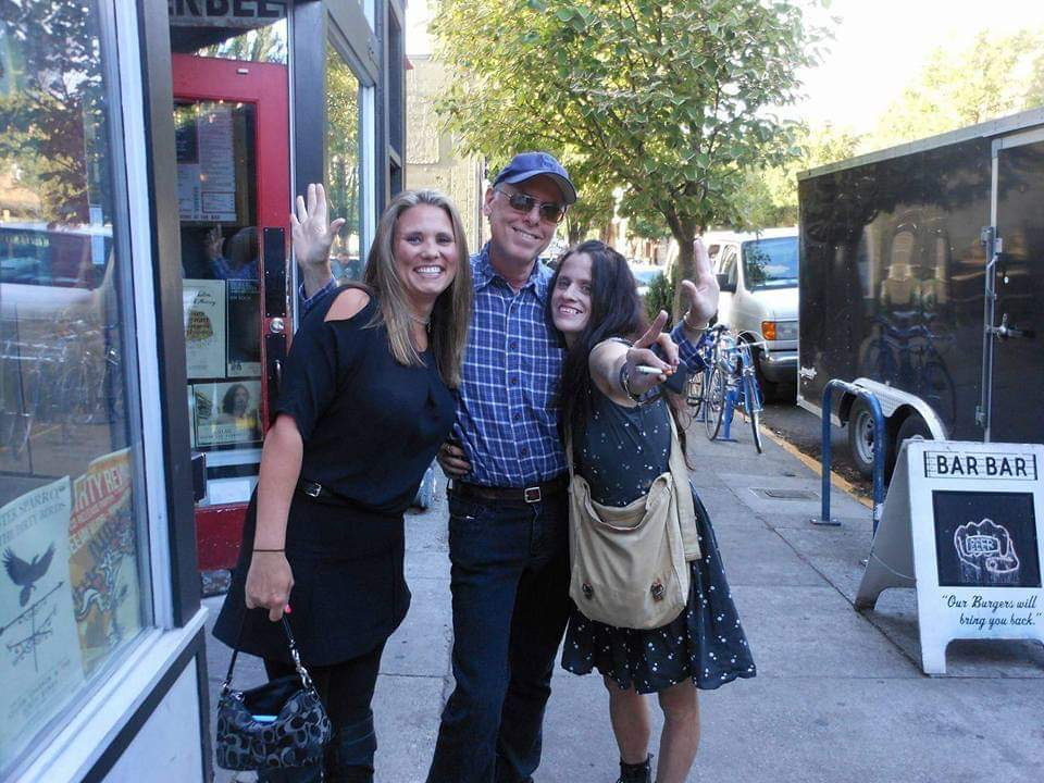 Dave Higginbotham, uncle of Kat Bjelland